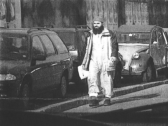 'a surveillance photo of Hassan Mustafa Osama Nasr (also known as Abu Omar) found on a disk in the home of the head CIA official in Milan, believed to be Robert Seldon Lady'.